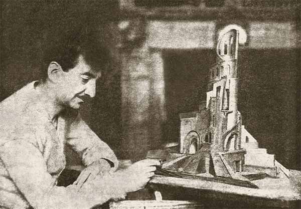 G. Yakulov with a model of the monument to 26 Baku Commissars. 1923